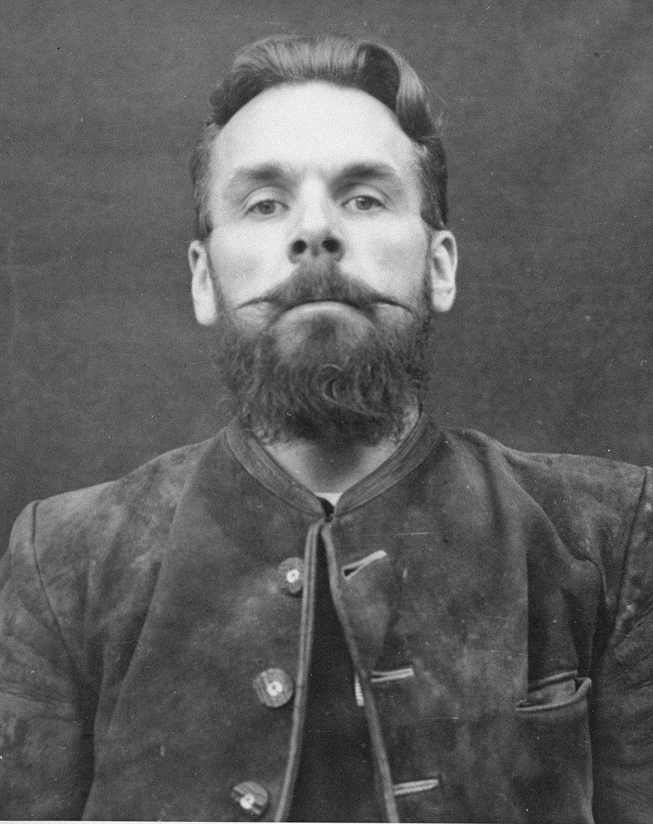 Wolfram Sievers, Executive Secretary of the SS-Ahnenerbe. He was sentenced to death on August 7 1947 for crimes against humanity in the Doctors' Trial, and hanged on June 2, 1948.